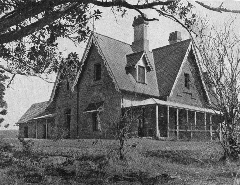 Bardon House in Brisbane, ca. 1930. Bardon the suburb was named after this home built by Joshua Jeays, one of the first landowners in the district. The area was first surveyed in 1862. Jeays was the home owner and architect and a business partner of Andrew Petrie.